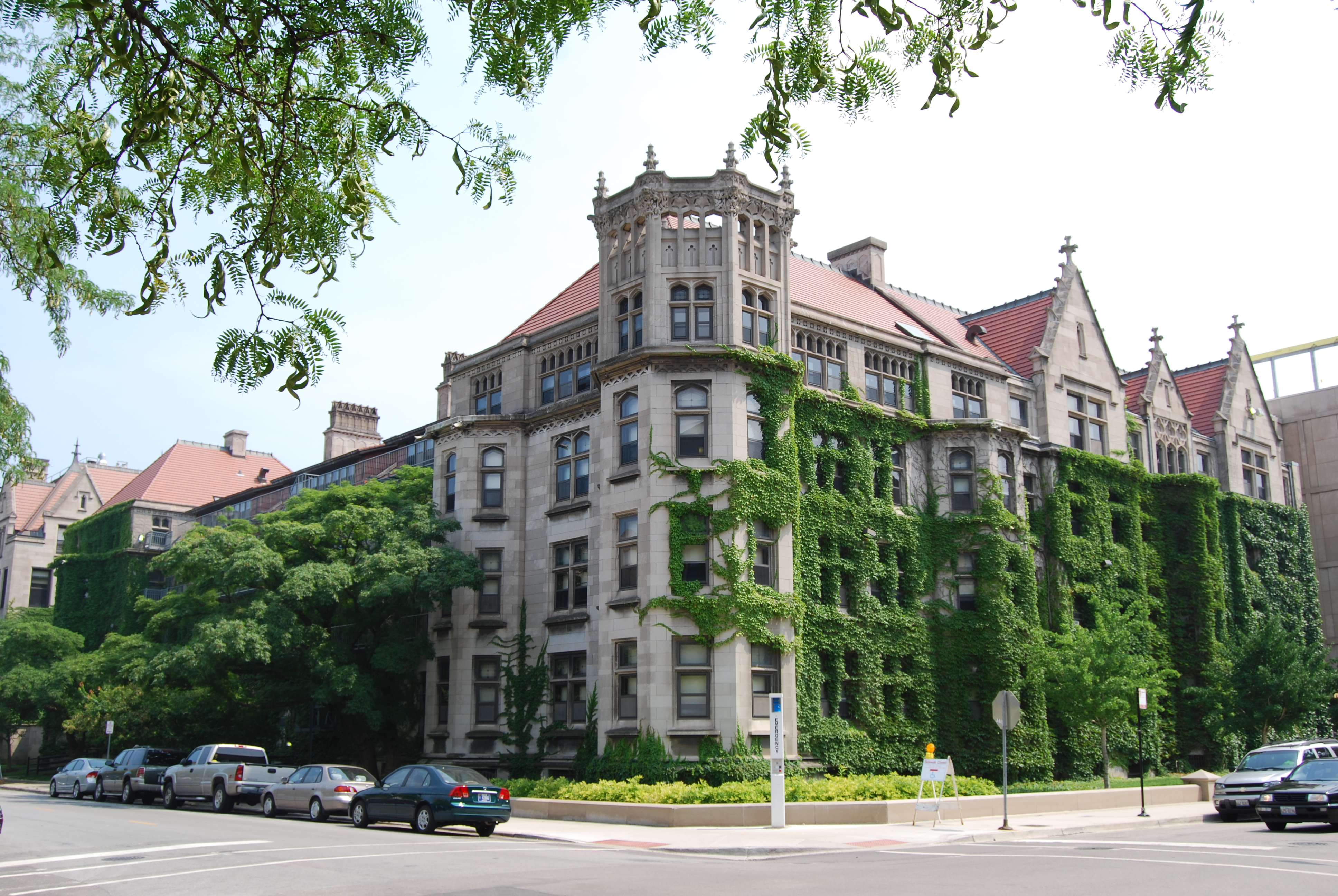 I, Bryce Lanham, took this picture.